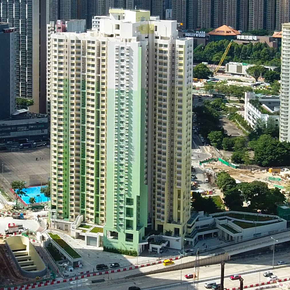 King Tai Court